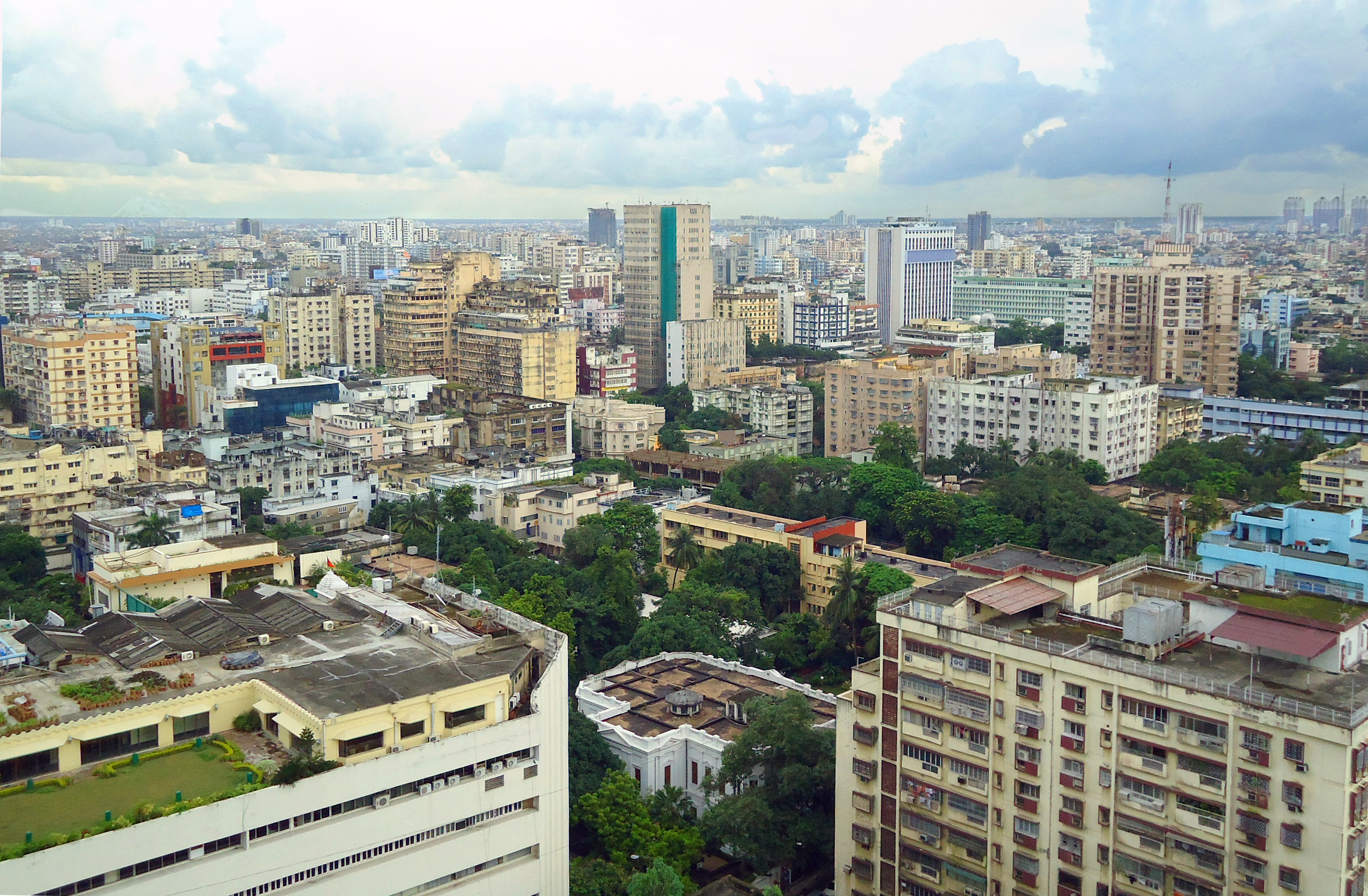 A Panoramic view of Kolkata CBD area.